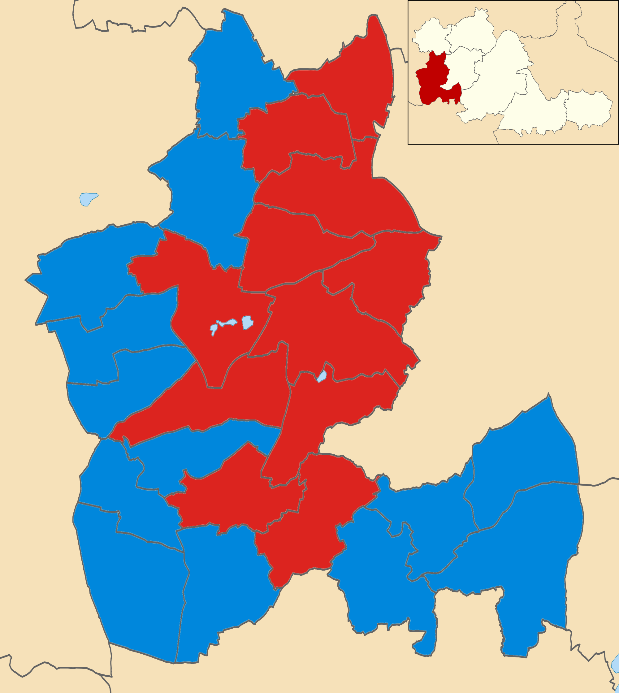 Results of the 2015 local elections in Dudley Colours: Conservative Labour